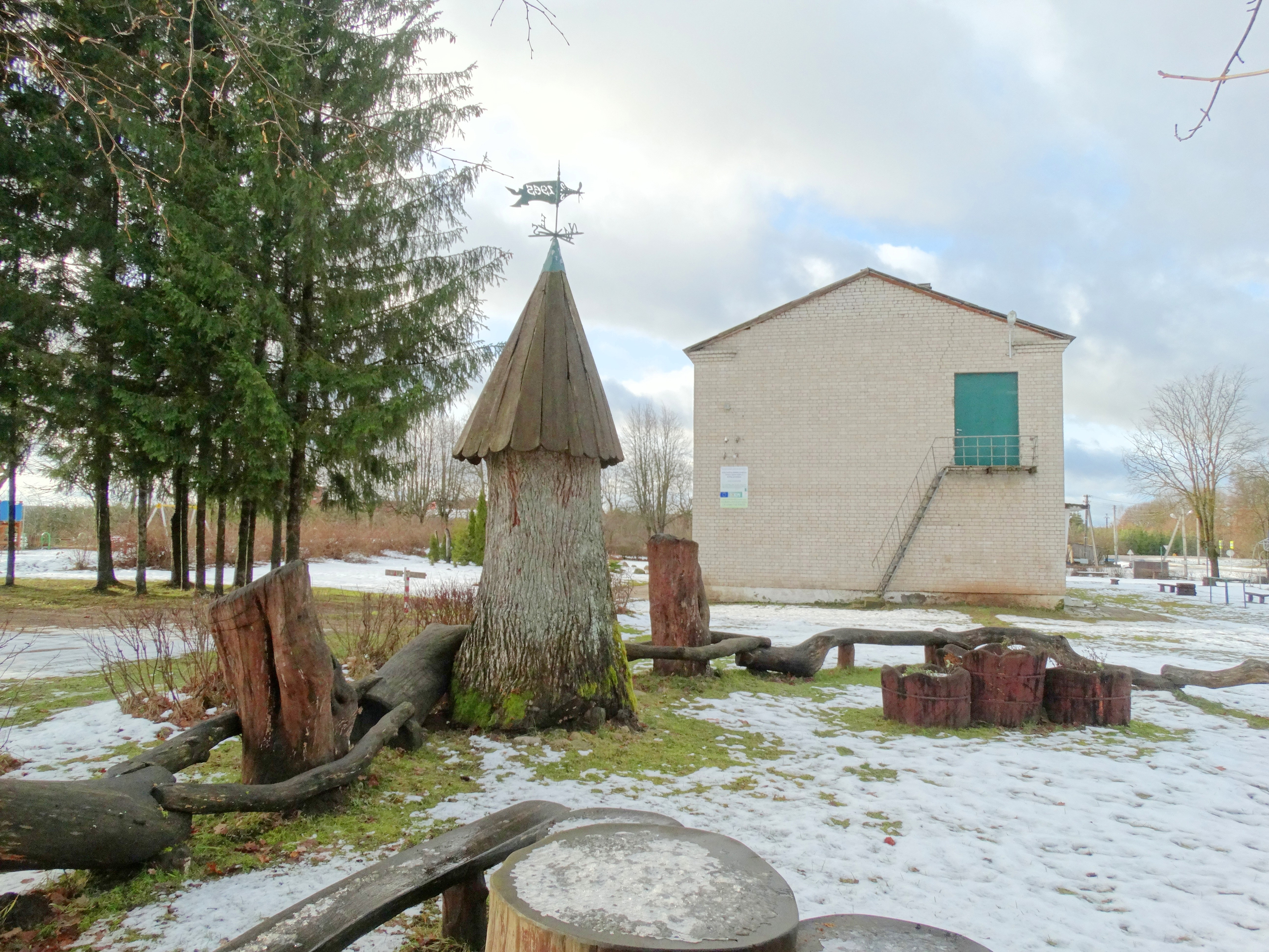 Basic School, Čekoniškės, Vilnius district, Lithuania